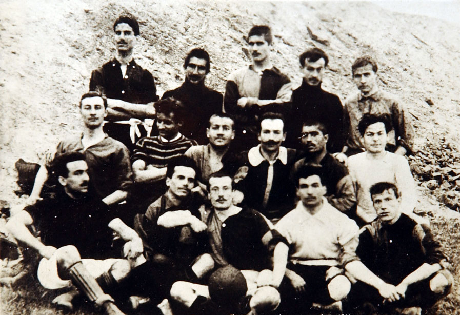 Players and founders of Galatasaray, 25 November 1906 (first known photograph of Galatasaray). From left to right: Back row - Mazhar (Arat), Asım Tevfik (Sonumut), Milo Bakiç, Refik Cevdet (Kalpakçıoğlu), Boris Nikolof Middle row - Abidin (Daver), Ullah Tulyos, Bekir Sıtkı (Bircan), Nuri, Celal İbrahim, Kamil (Kulaksızoğlu) Front row - Tahsin Nahit, Ali Sami (Yen), Emin Bülent (Serdaroğlu), Reşat (Şirvanizade), Mehmet Ali (Tamay)